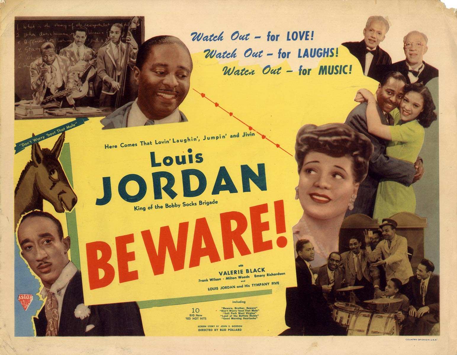 promotional poster from Beware!